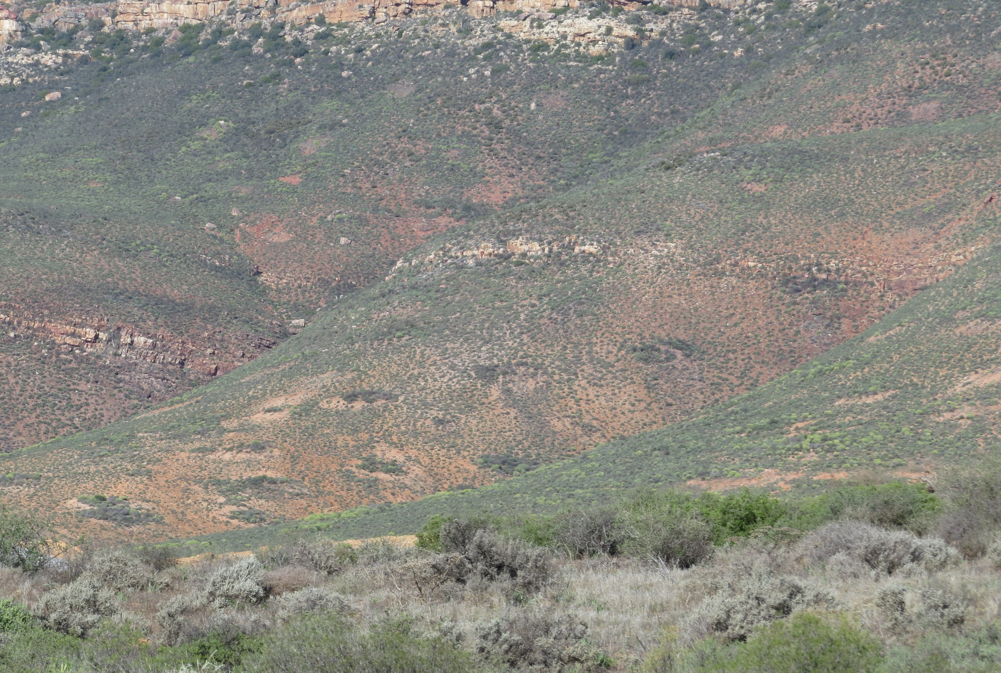 Heuweltjies showing invasion by vegetation near national road N7 south of Klawer in Western Cape South Africa.